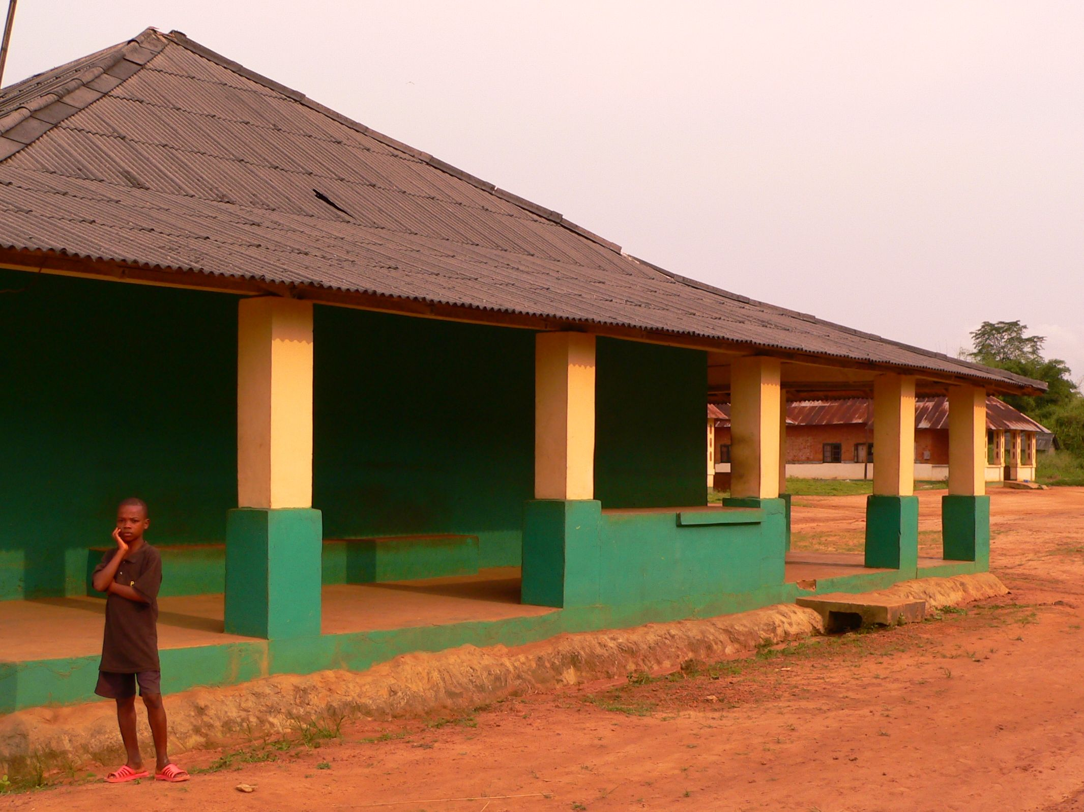 The hospital at Baringa, by the River Maringa, Equateur, Democratic Republic of Congo.